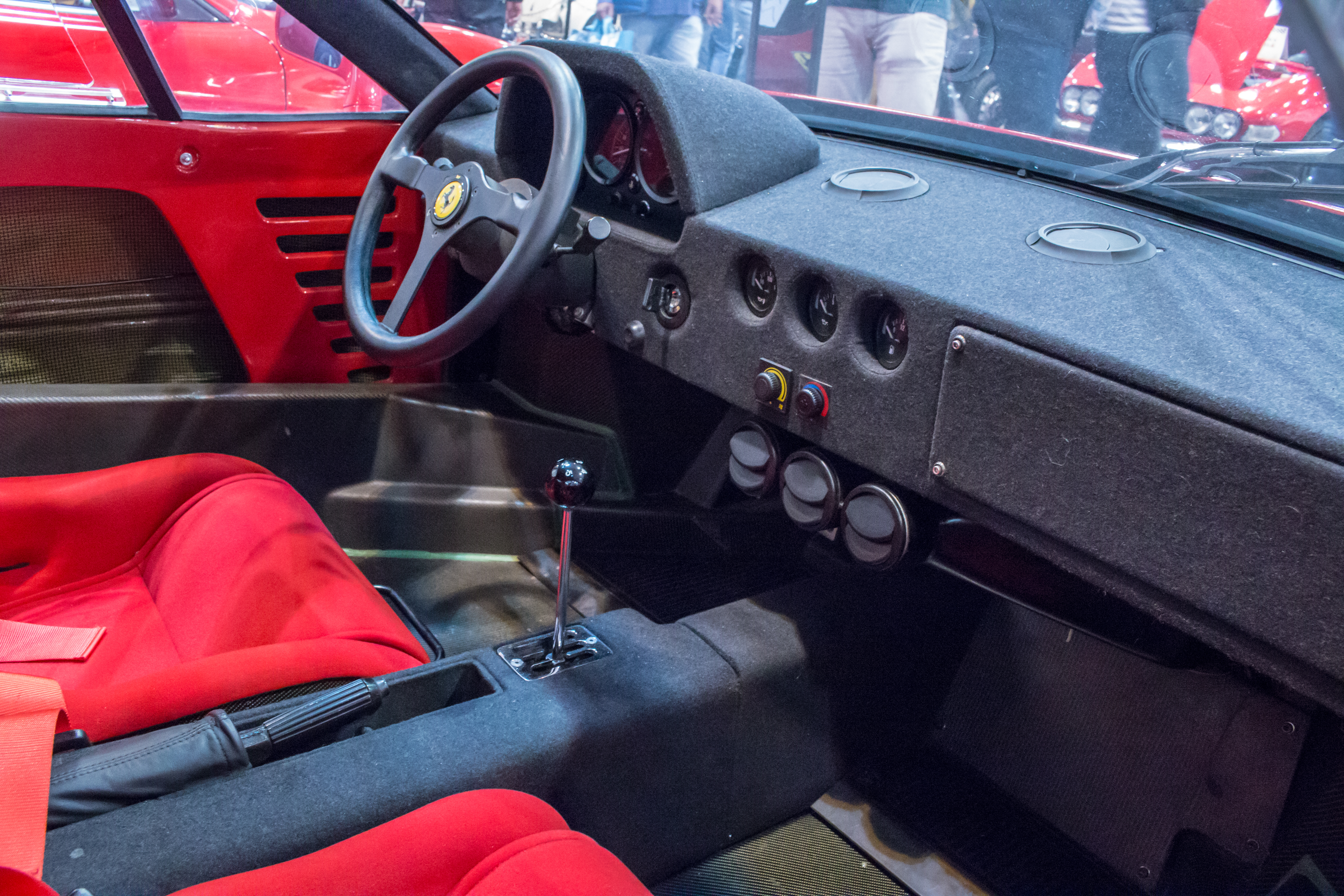 Ferrari, Techno-Classica 2018, Essen